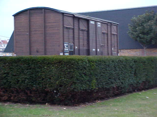 Le wagon de Drancy / Drancy's witness train-car (last symbol of Nazy's occupation) Photo de l'auteur / Self picture : Dominique Natanson. Licensing Catégorie:Drancy